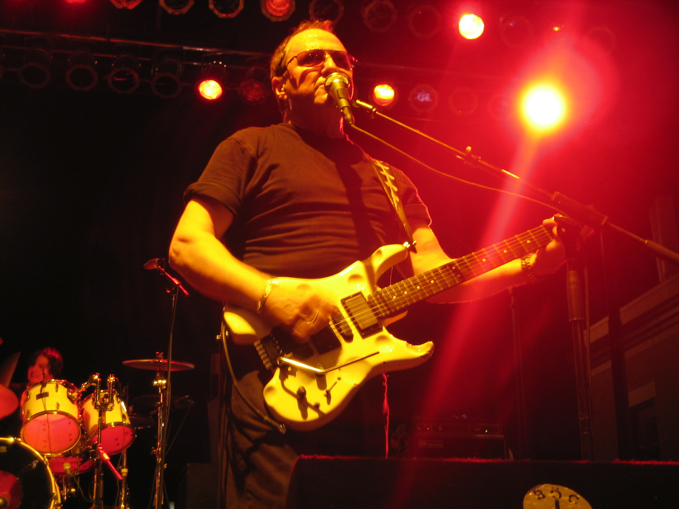 Donald "Buck Dharma" Roeser during a live preformance on the 30th of july 2006